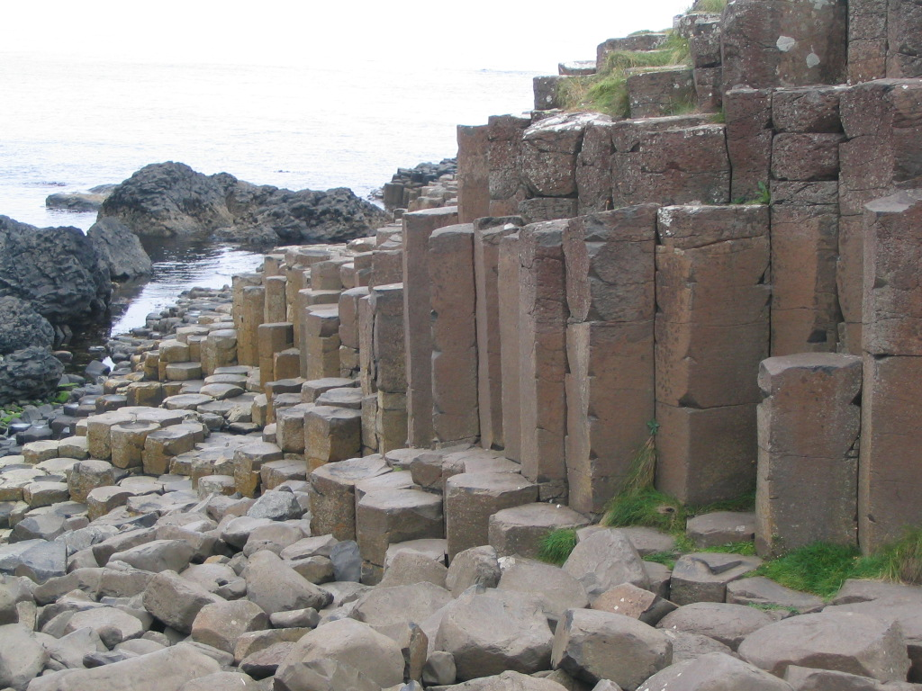 Basalt is such an interesting igneous rock. In this picture the rock form looks to be almost man made